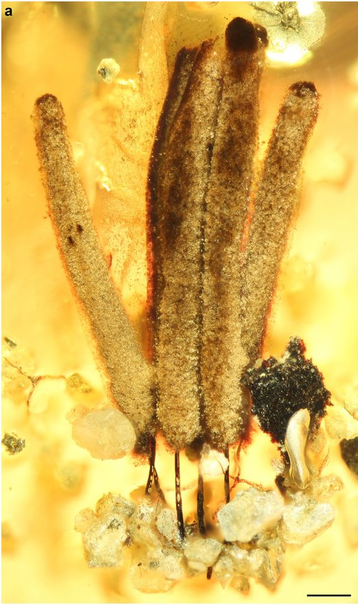 Fossil Stemonitis in mid-Cretaceous amber from northern Myanmar. (a) General habitus of sporocarps. Scale bar 200 µm